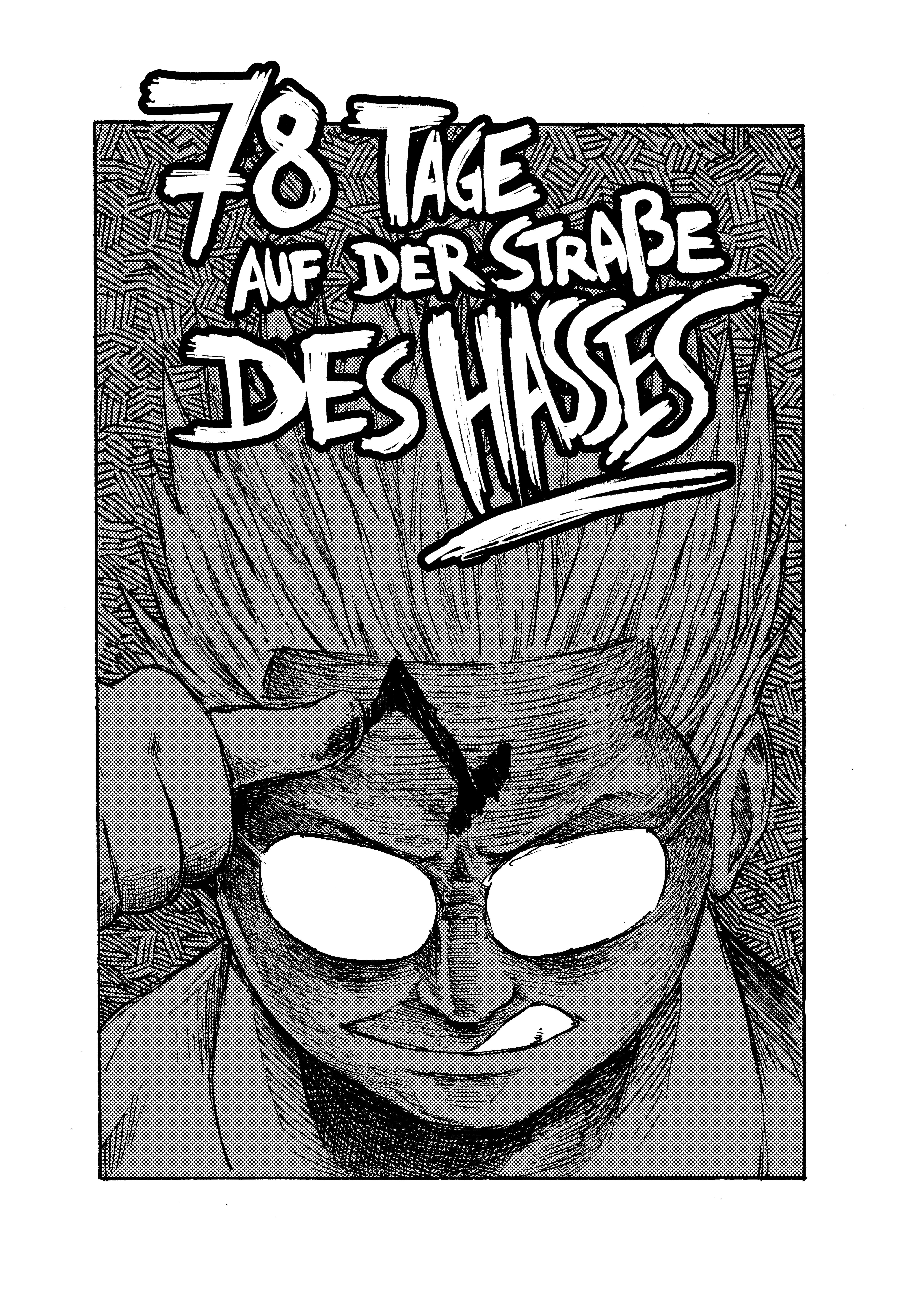 Cover of the first issue of 78 days on the roads of hate